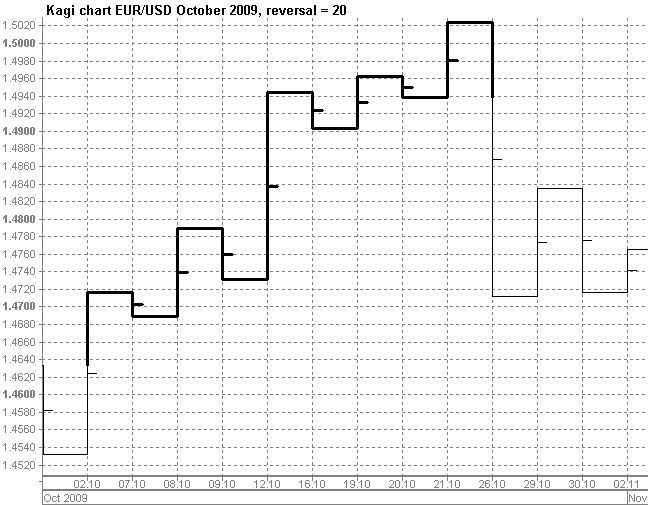 Kagi chart EUR/USD October 2009 reversal amount = 20